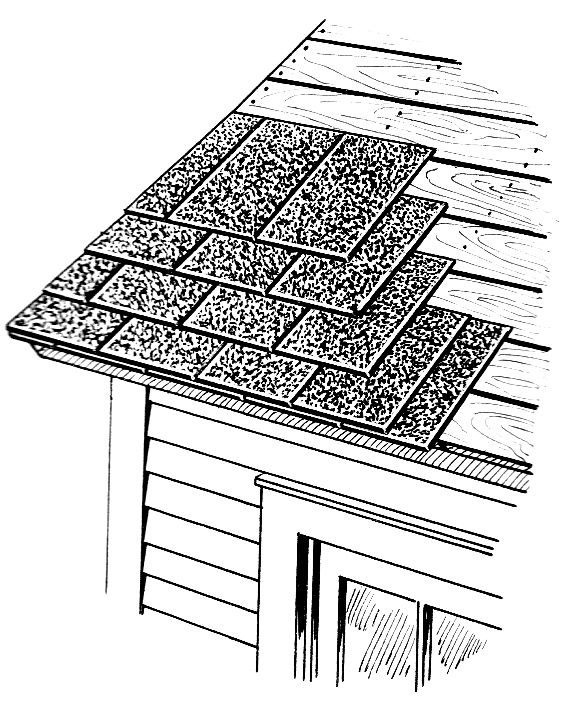 Line art drawing of a shingle roof